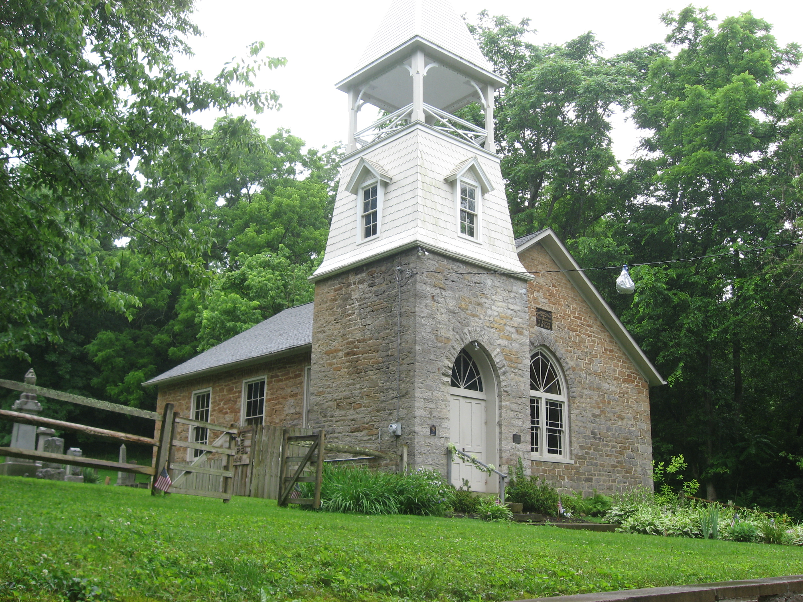 Front and eastern side of the former United Brethren in Christ Church (also known as "Five Mile Chapel"), located at 6977 Five Mile Road southeast of Cincinnati in Anderson Township, Hamilton County, Ohio, United States. Built in 1844, it is listed on the National Register of Historic Places.